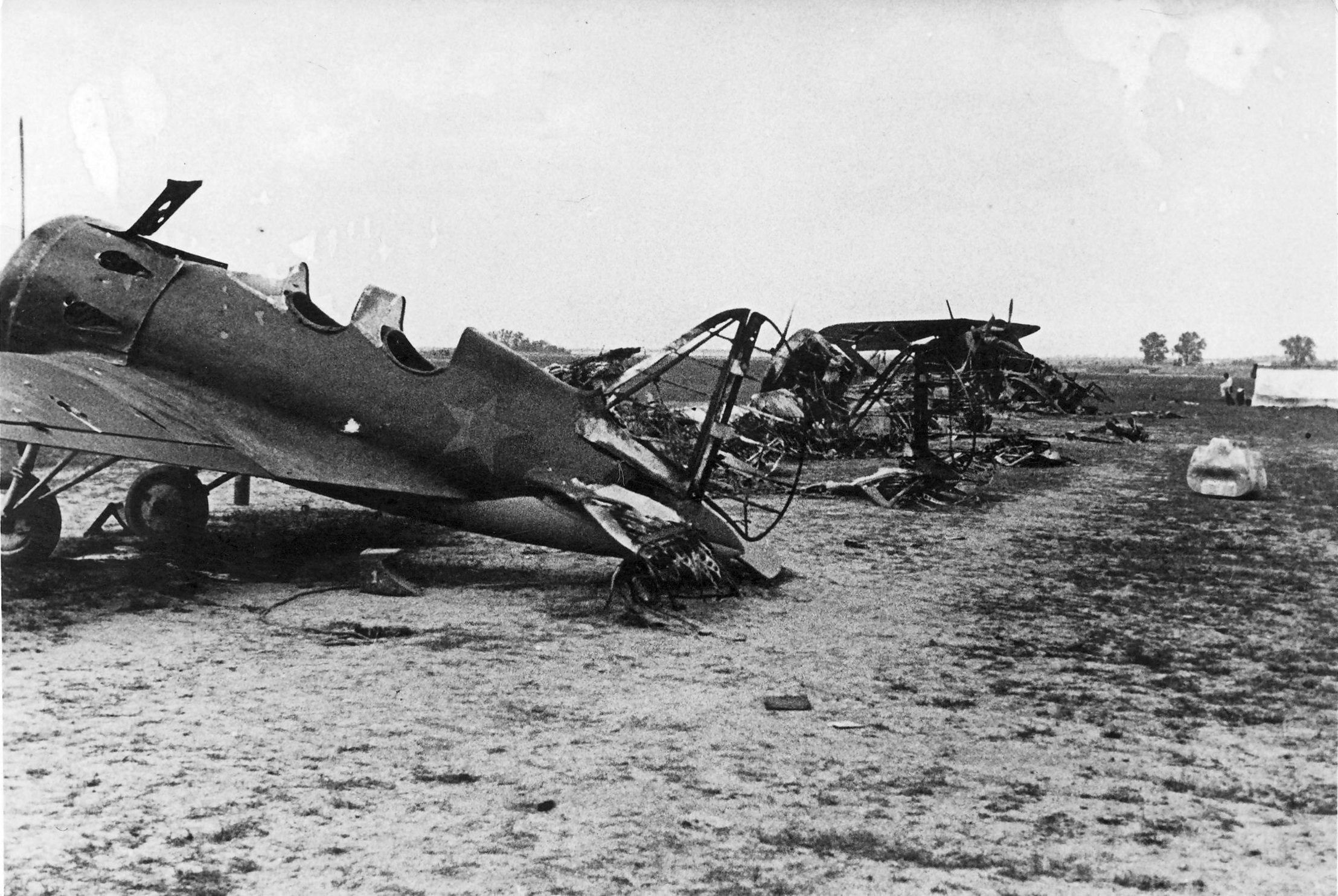 Operation Barbarossa: Russian and German planes destroyed on the ground. In the front Russian Polikarpov UTI-4 a two seater training version of I-16 Soviet fighter. In the back a plane with German markings is likely Henschel Hs 126.